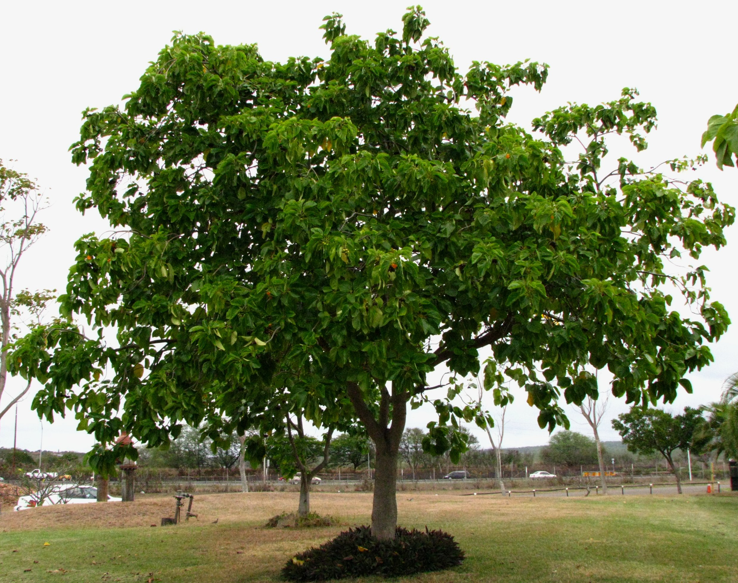 Cultivated specimen of the indigenous Kou (Cordia subcordata, Boraginaceae) on the island of Oʻahu, Hawaii.